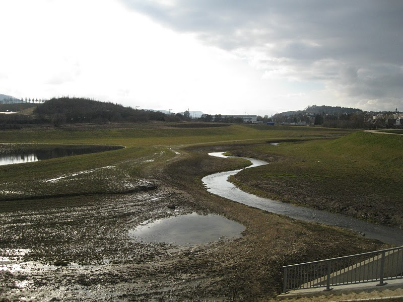 View over the new flood control basin "Dürrwiesen" by "Aalen".